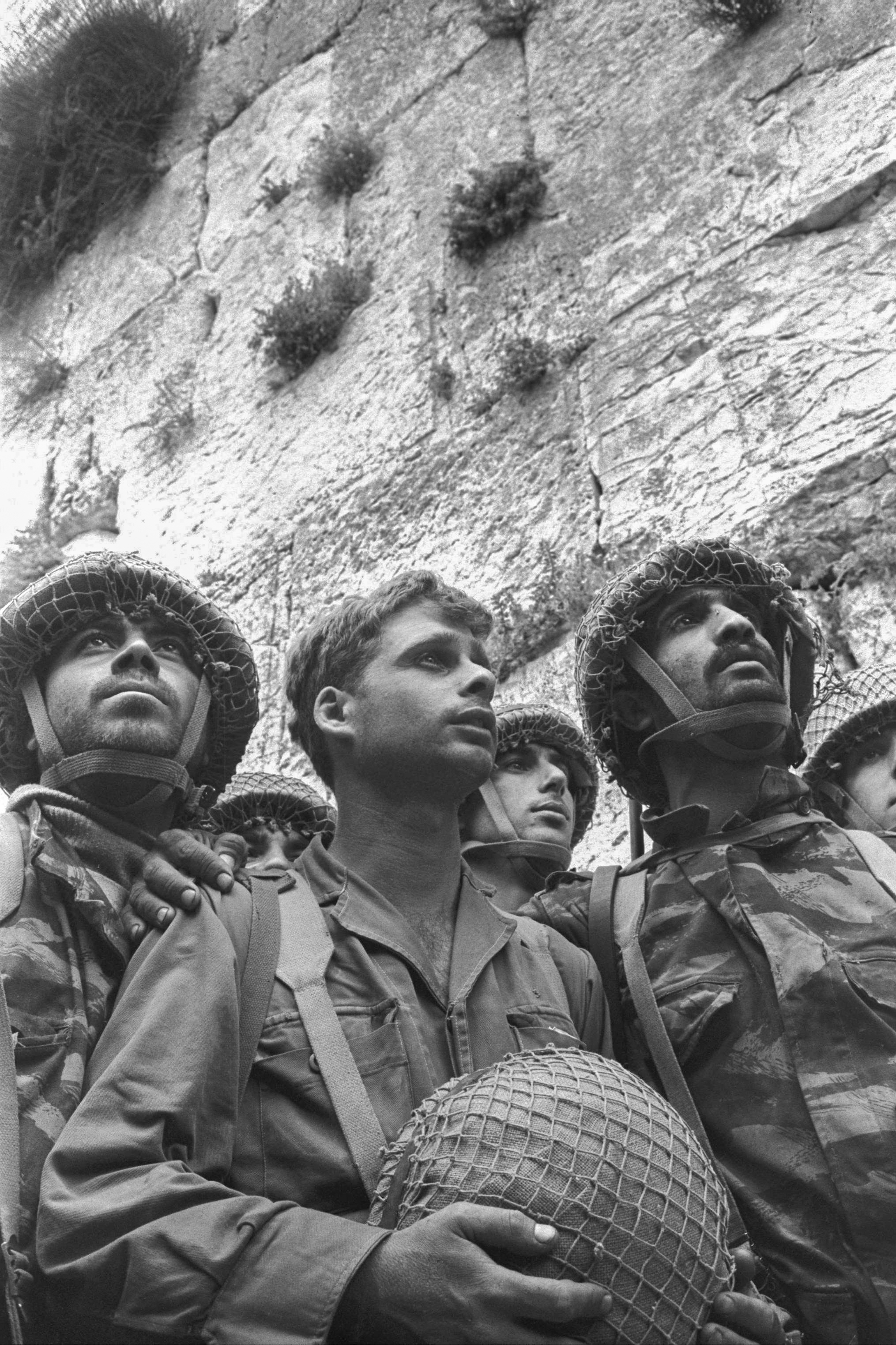 Six Day War. Israeli paratroopers stand in front of the western wall in Jerusalem.